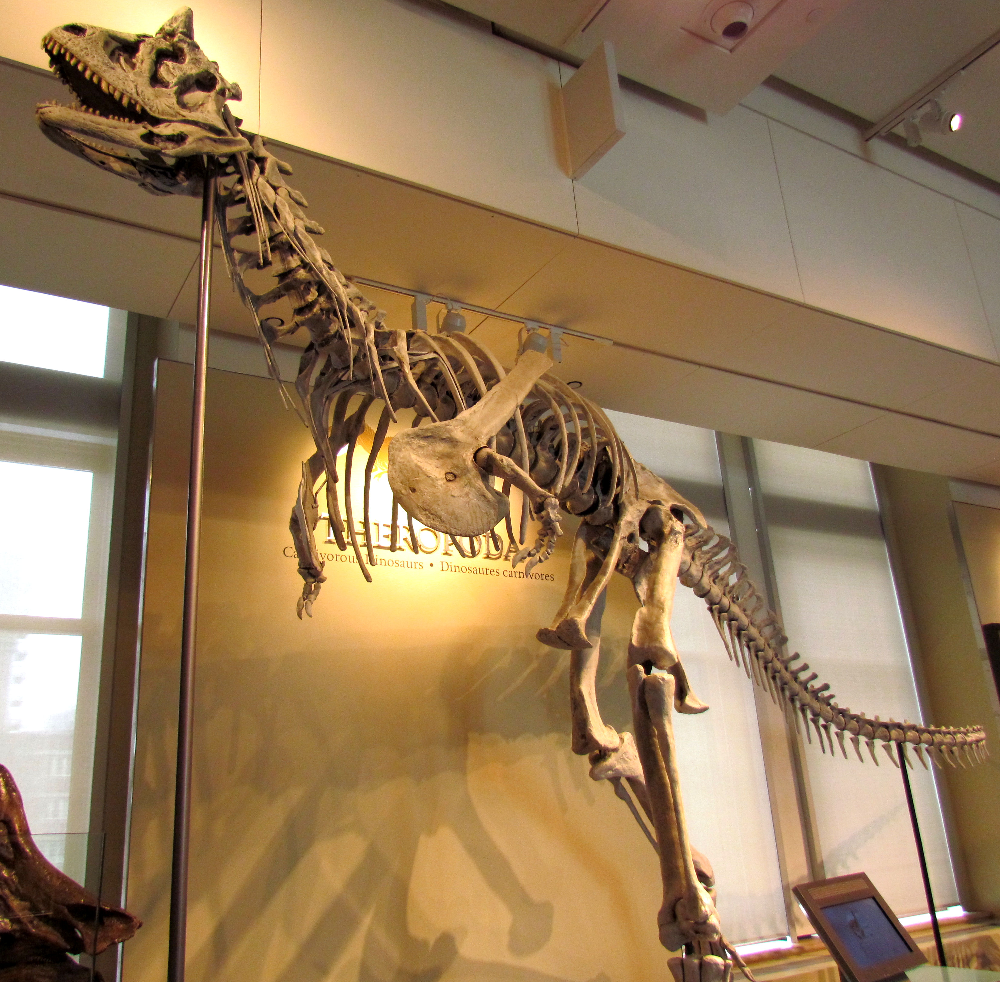 Carnotaurus sastrei, skeletal model, Canadian Museum of Nature, Ottawa, Ontario, Canada